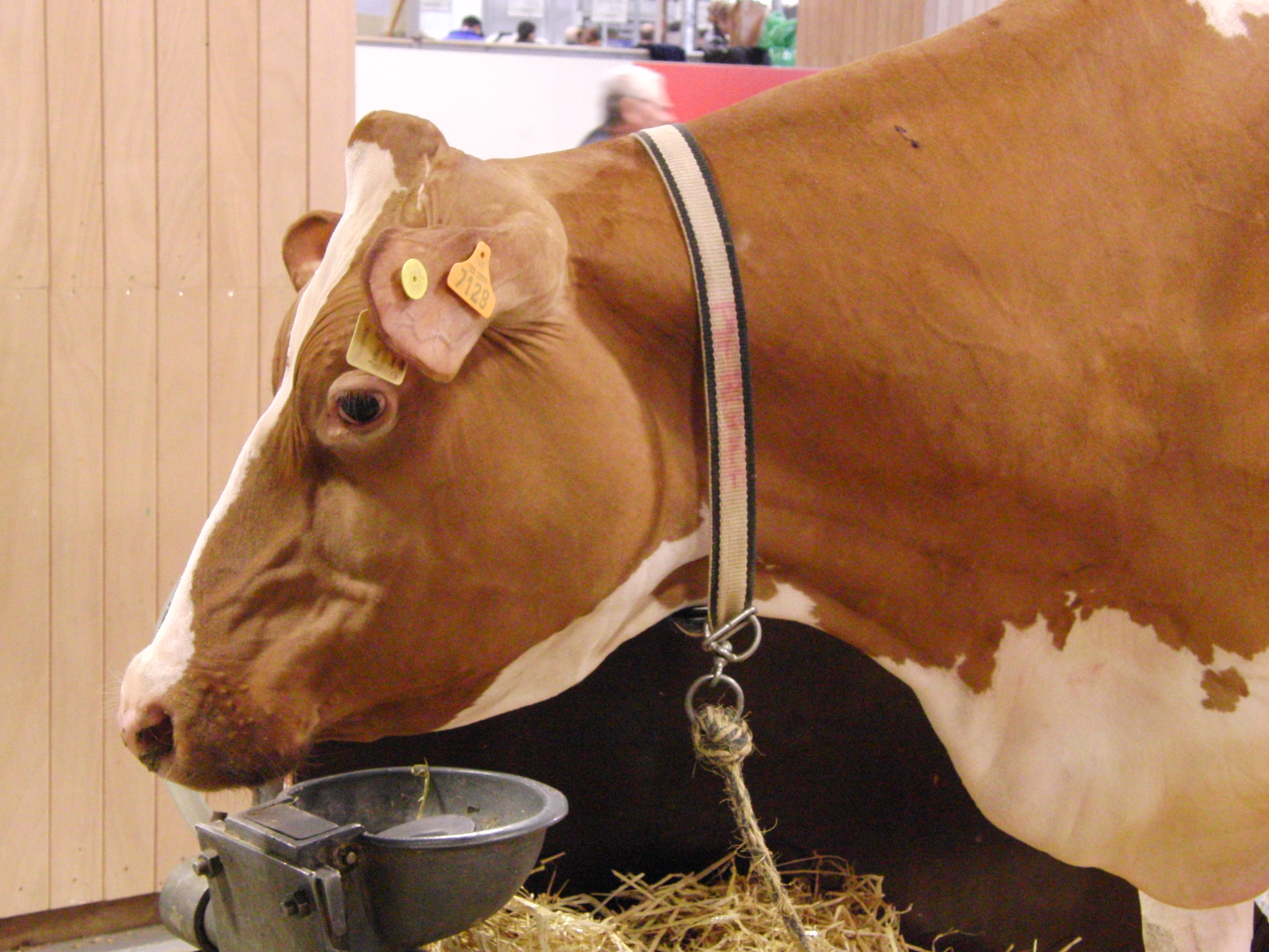 Pie Rouge des Plaines cow - Paris International Agricultural Show 2014, France